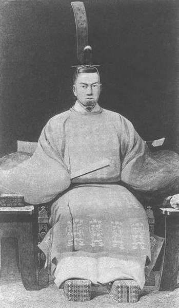 121st. Emperor-of-Japan Koumei.